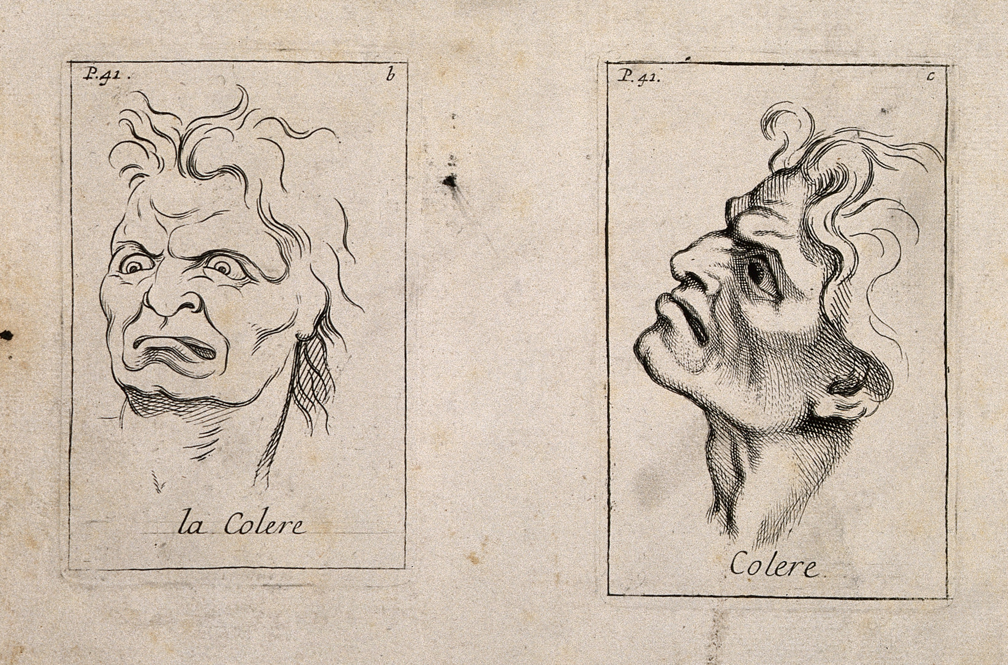 A frontal outline and a profile of faces expressing anger. Etching by B. Picart, 1713, after C. Le Brun. Iconographic Collections Keywords: etching; le brun; pathognomy; Bernard Picart; facial expressions; Anger; Charles Le Brun; b. picard